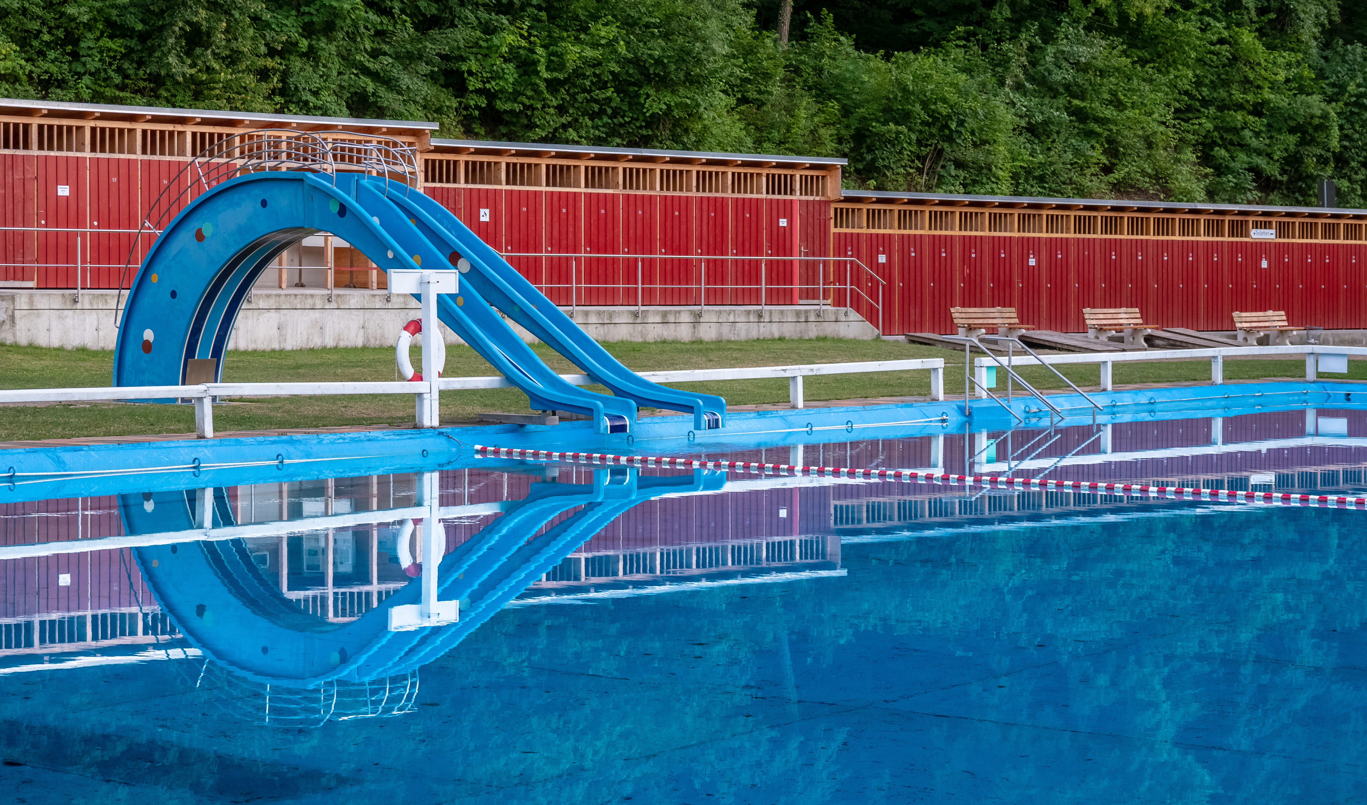 Outdoor pool in Streitberg